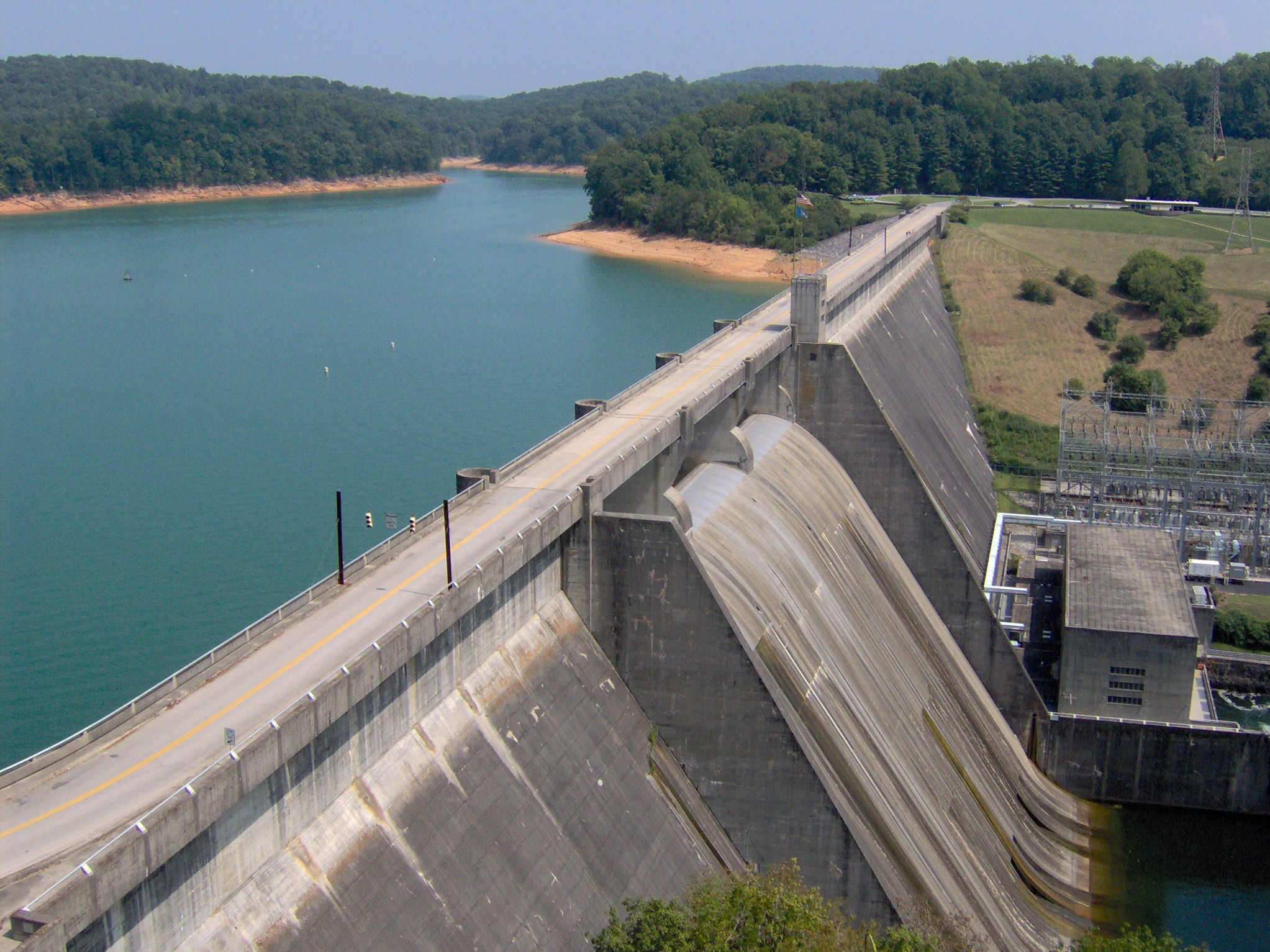 Norris Dam in Anderson County, Tennessee, in the southeastern United States. This view is from the West Overlook, looking northeast.